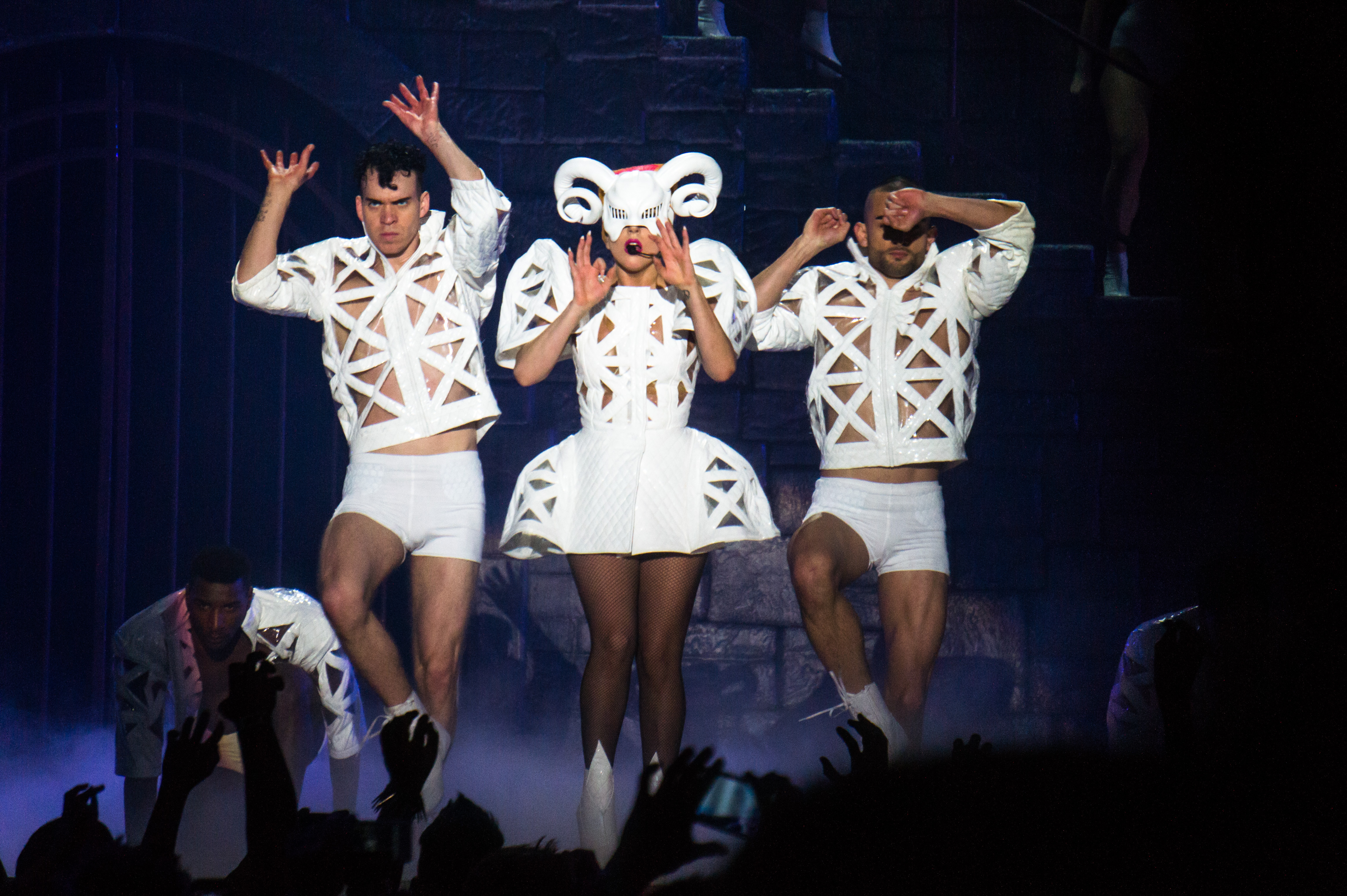 Lady Gaga performing "Bad Romance" druing The Born This Way Ball Tour in Perth, Australia.